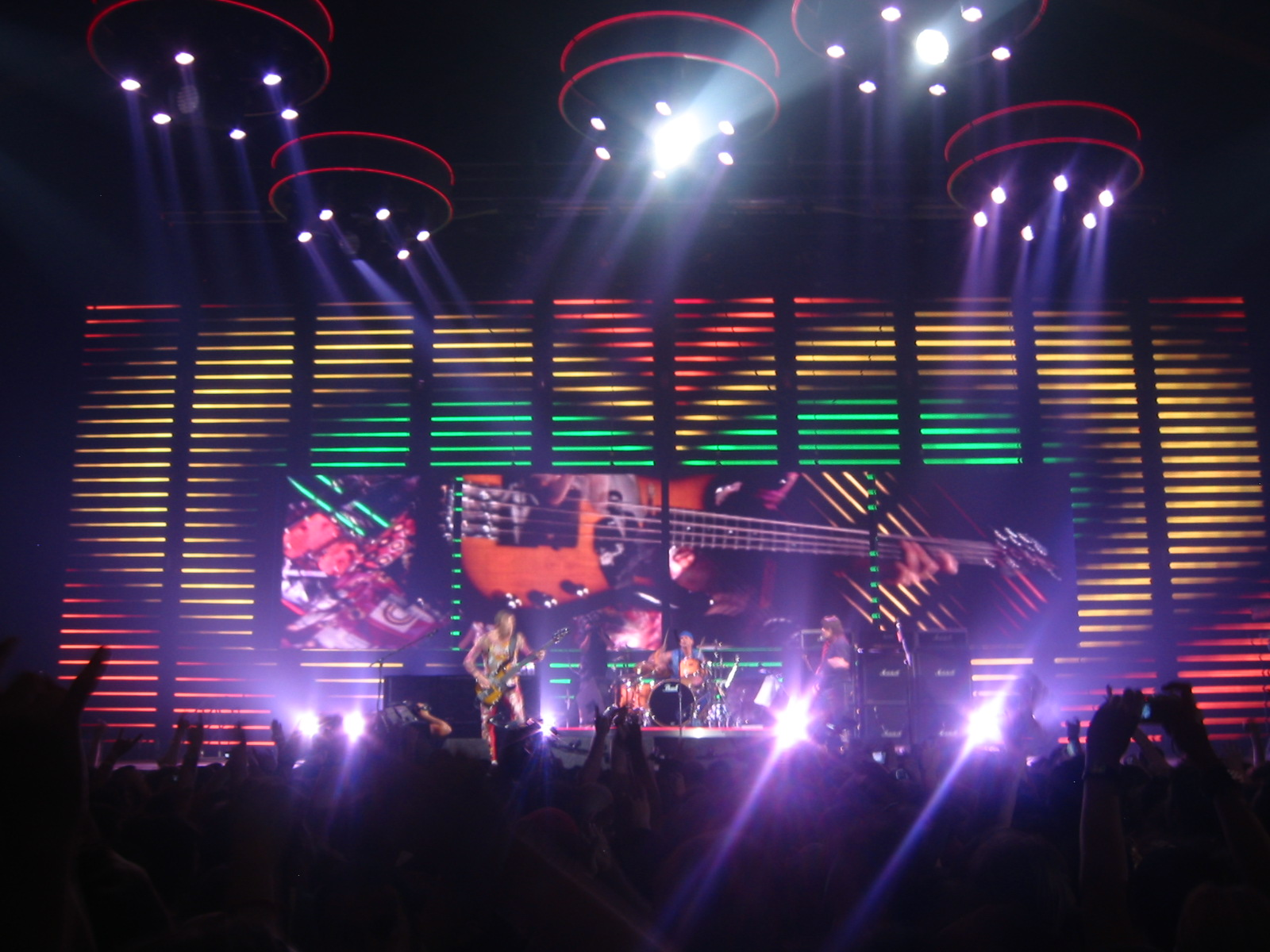 Red Hot Chili Peppers live at Lyon, Rhône, France.